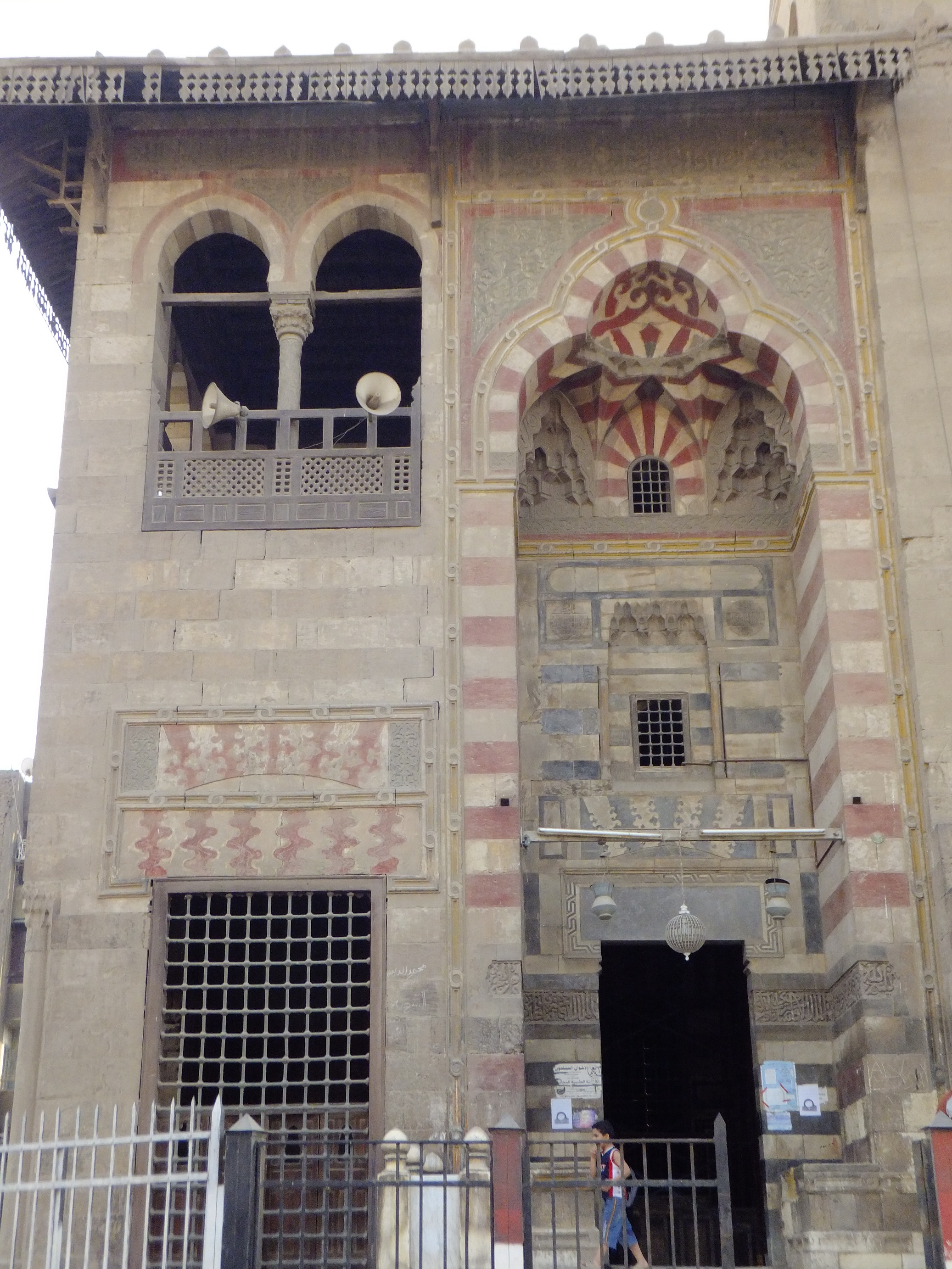 View of the entrance facade of Sultan Qaytbay's mosque in the Northern Cemetery.